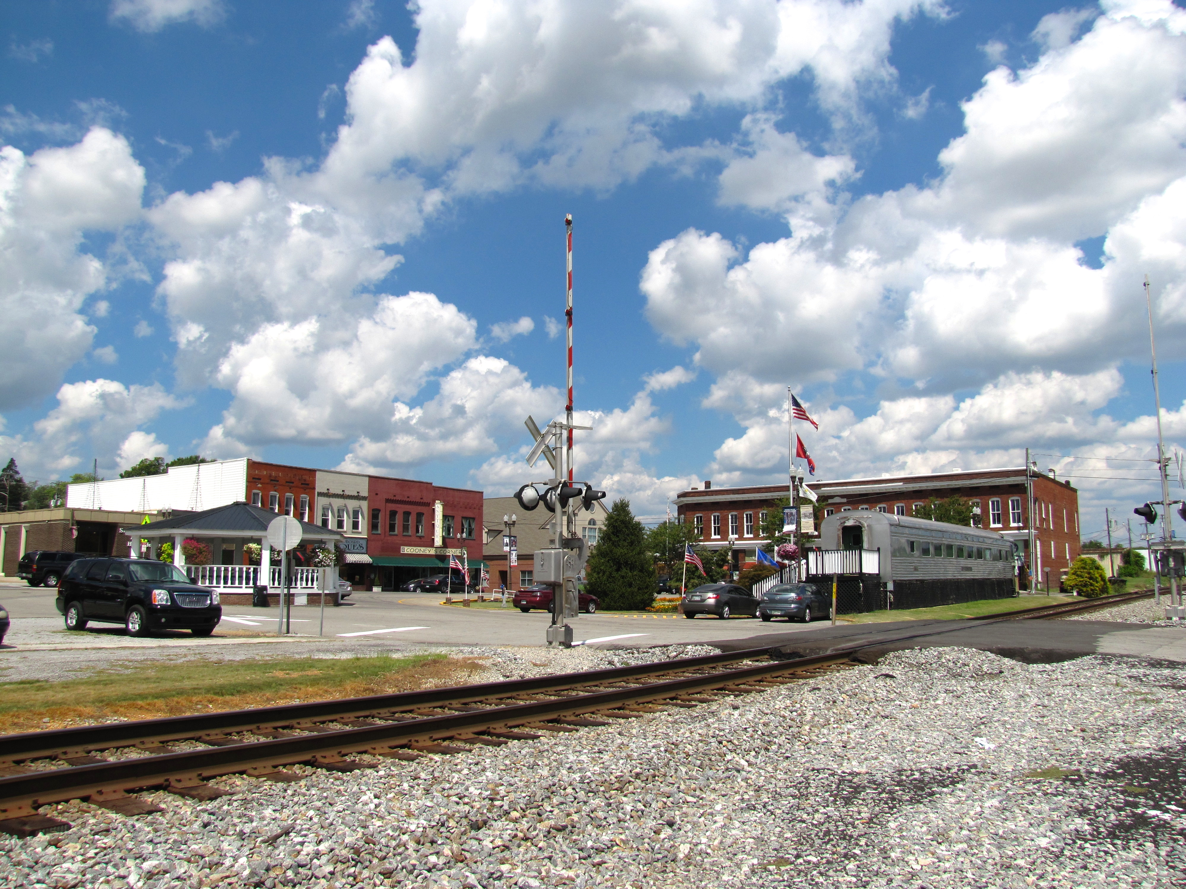 Railroad tracks and the downtown area of Sweetwater, Tennessee, United States.